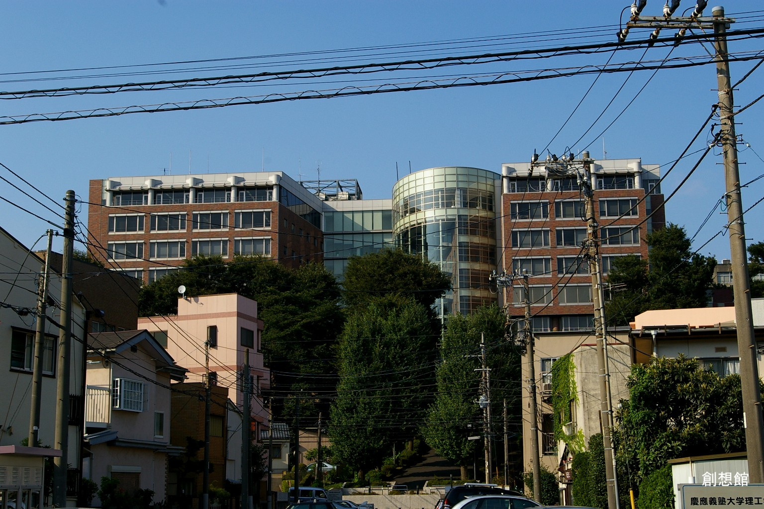 2009.5日本国内で塾生 (talk)が撮影。